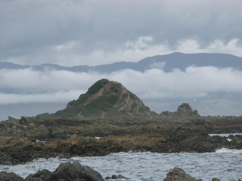 TapuTeRangaMotuPICT4122.jpg- photo taken and uploaded by Paul Moss, Photographer, Artist, Paul Moss Photographer Artist NZ